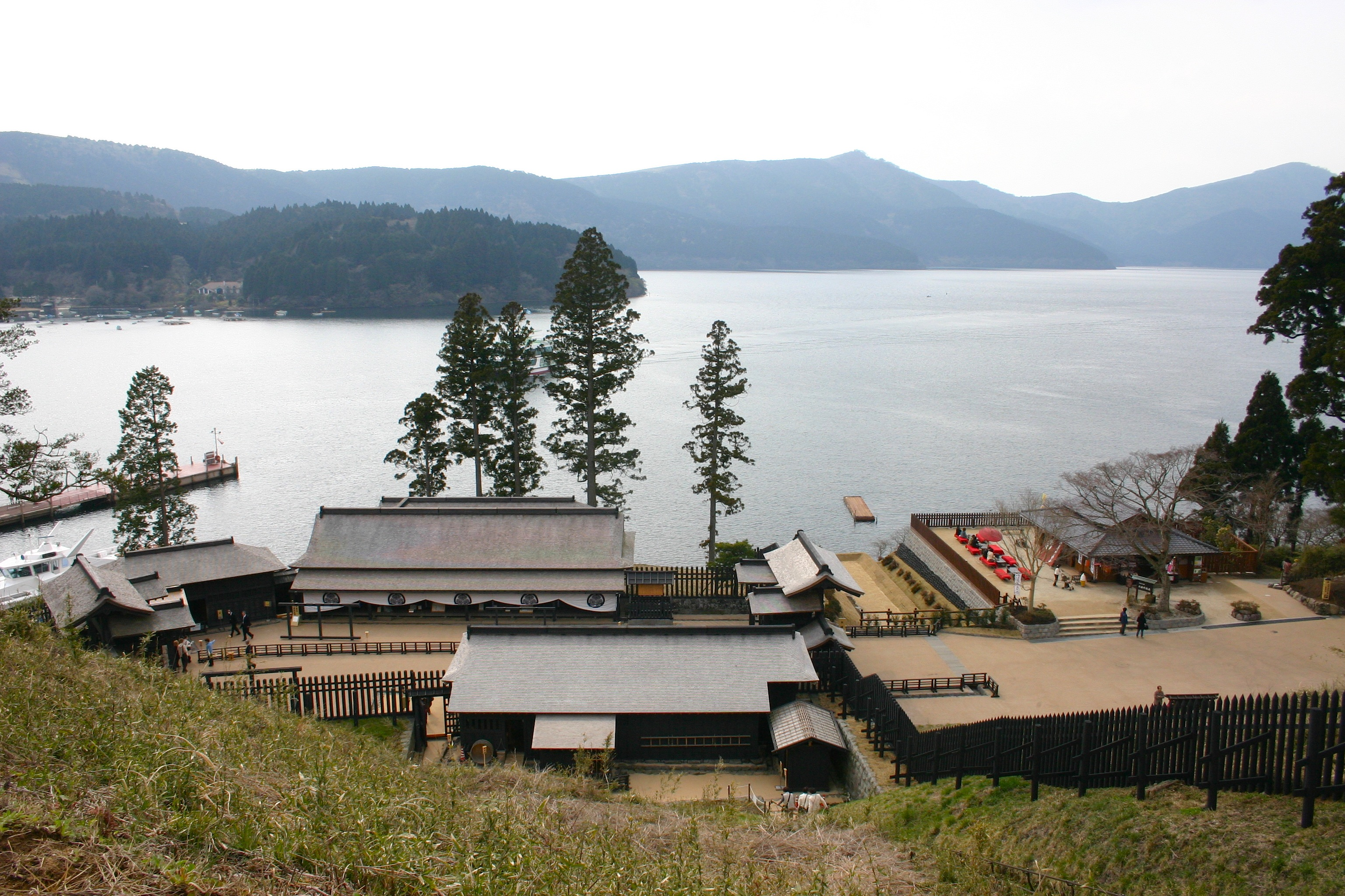 Sekisho (＝check point) at Hakone, Kanagawa, used until 1869. During the Edo period, when the Emperor was in Kyoto and the Shogun ruled from Edo/Tokyo, checkpoints like these on the road between the two cities were used to ensure that no arms were smuggled, and that the family hostages (women) lodged by each feudal lord in Edo did not escape. Visit the official website of Hakone Sekisho.